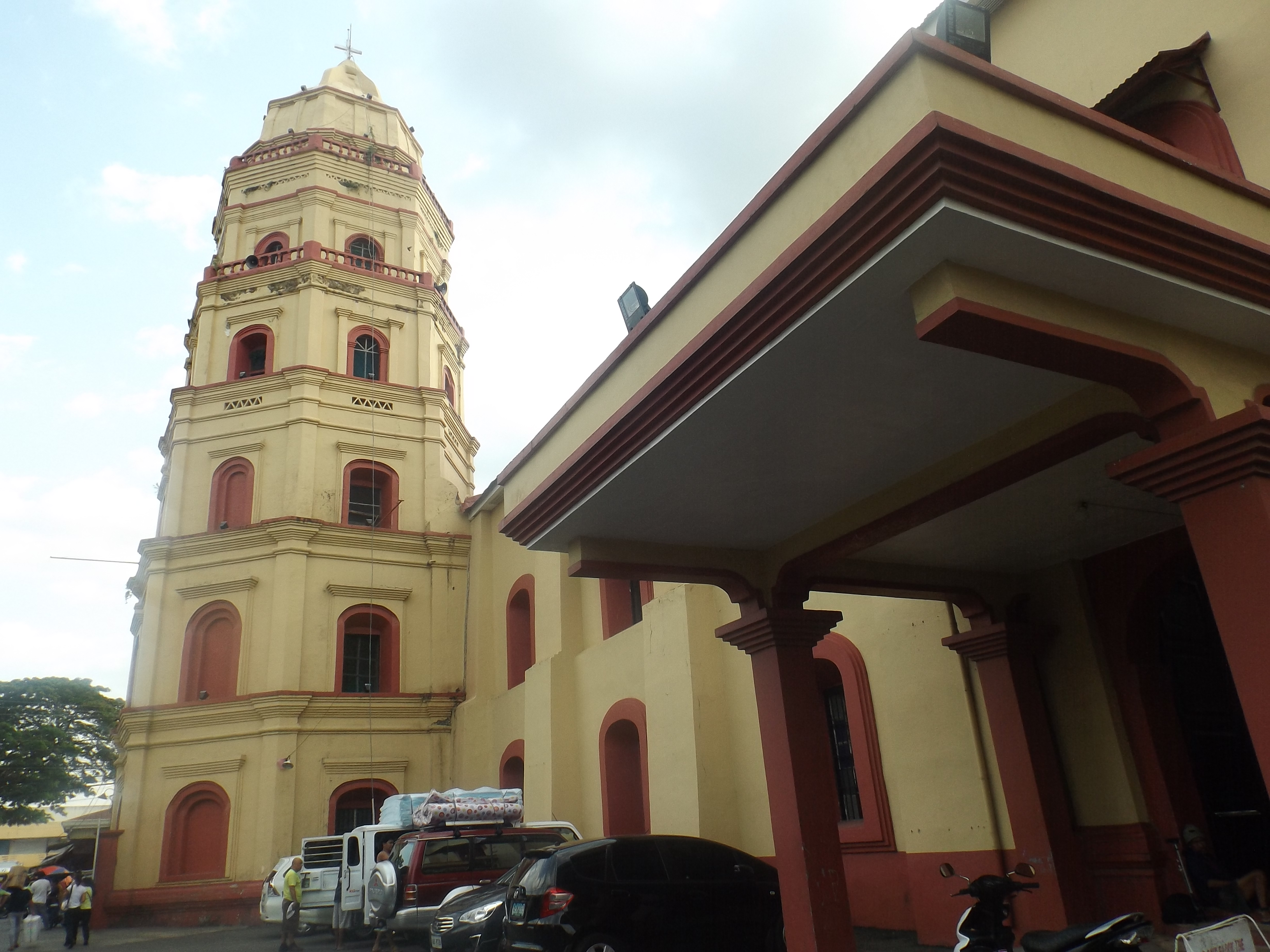 Belltower